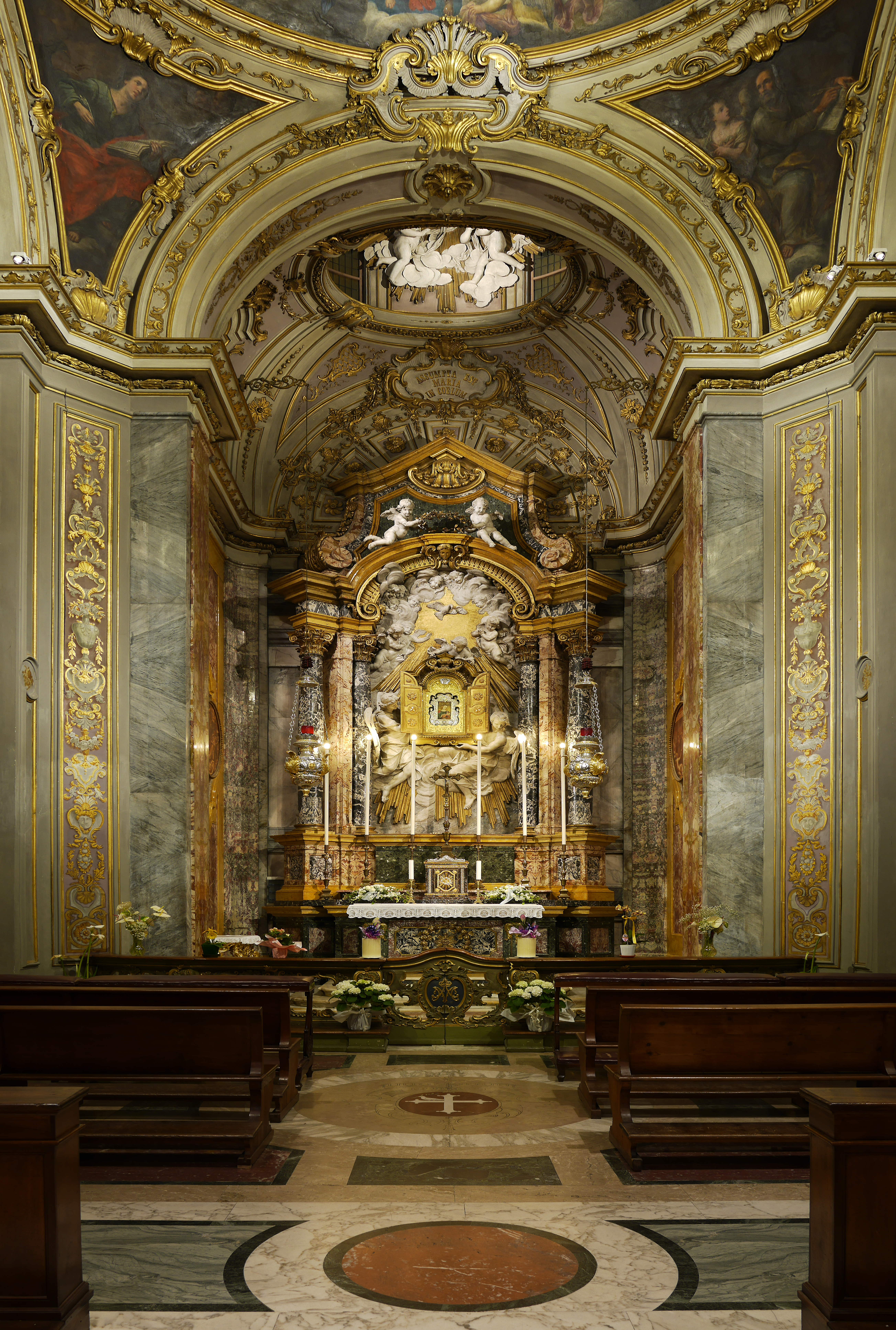 Baroque chapel of Our Lady of Sudor, Ravenna Cathedral, Italy. Built at the expense of citizens for saving Ravenna from the plague of 1629.